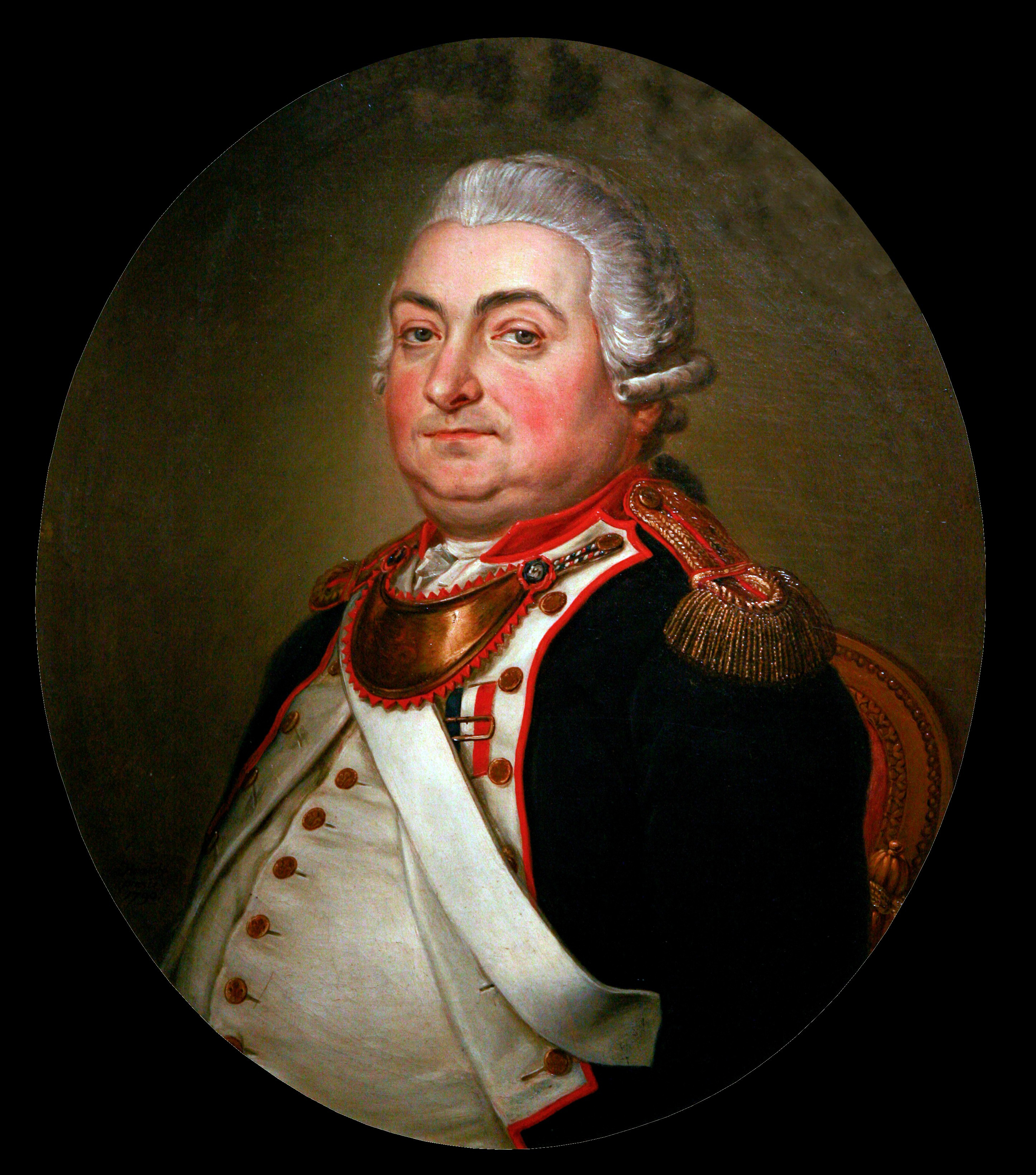 Monsieur Hepp, commander of Strasbourg National Guard in 1790